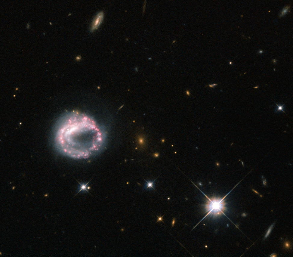 Galaxies can take many forms — elliptical blobs, swirling spiral arms, bulges, and discs are all known components of the wide range of galaxies we have observed using telescopes like the NASA/ESA Hubble Space Telescope. However, some of the more intriguing objects in the sky around us include ring galaxies like the one pictured above — Zw II 28. Ring galaxies are mysterious objects. They are thought to form when one galaxy slices through the disc of another, larger, one — as galaxies are mostly empty space, this collision is not as aggressive or as destructive as one might imagine. The likelihood of two stars physically colliding is minimal, and it is instead the gravitational effects of the two galaxies that causes the disruption. This disruption upsets the material in both galaxies, causing it to redistribute to form a dense central core, encircled by bright stars. All this commotion causes clouds of gas and dust to collapse and triggers new periods of intense star formation in the outer ring, which is thus full of hot, young, blue stars and regions that are actively giving rise to new stars. The sparkling pink and purple loop of Zw II 28 is not a typical ring galaxy due to its lack of a visible central companion. For many years it was thought to be a lone circle on the sky, but observations using Hubble have shown that there may be a possible companion lurking just inside the ring, where the loop appears to double back on itself. The galaxy has a knotty, swirling ring structure, with some areas appearing much brighter than others. A version of this image was entered into the Hubble’s Hidden Treasures image processing competition by contestant Judy Schmidt.